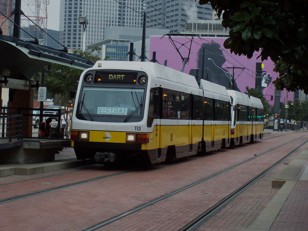 DART train led by #113 heading to the American Airlines Center station, in downtown Dallas, Texas.